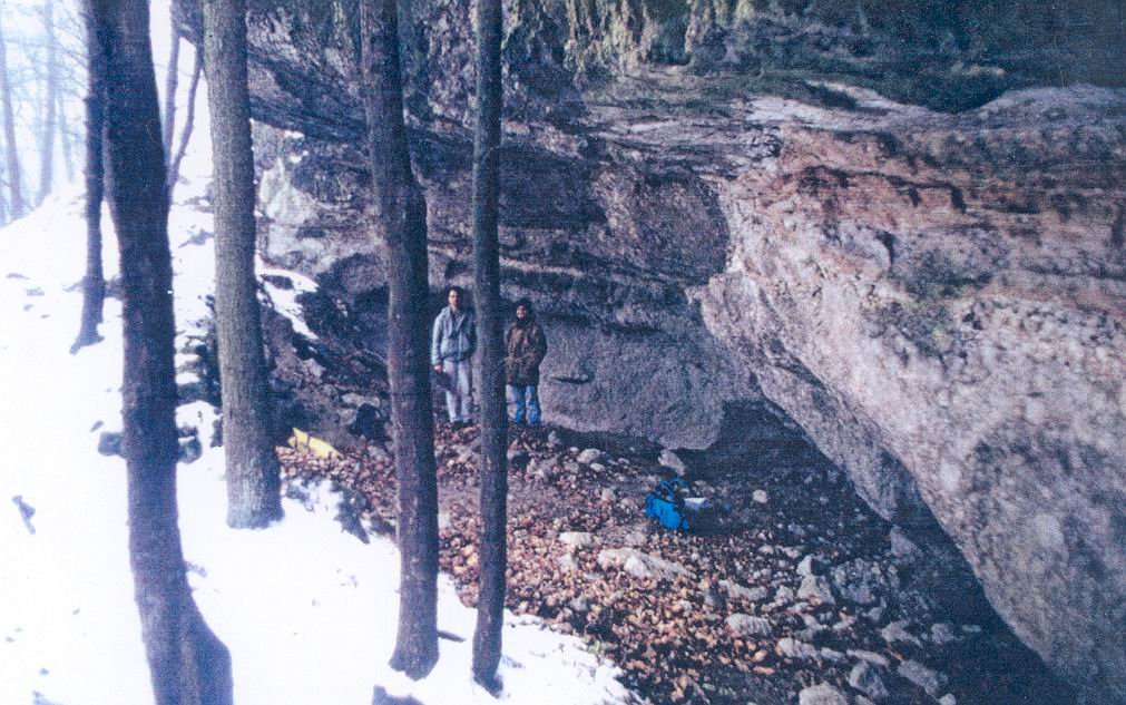 The Macska Hole in Szentendre.